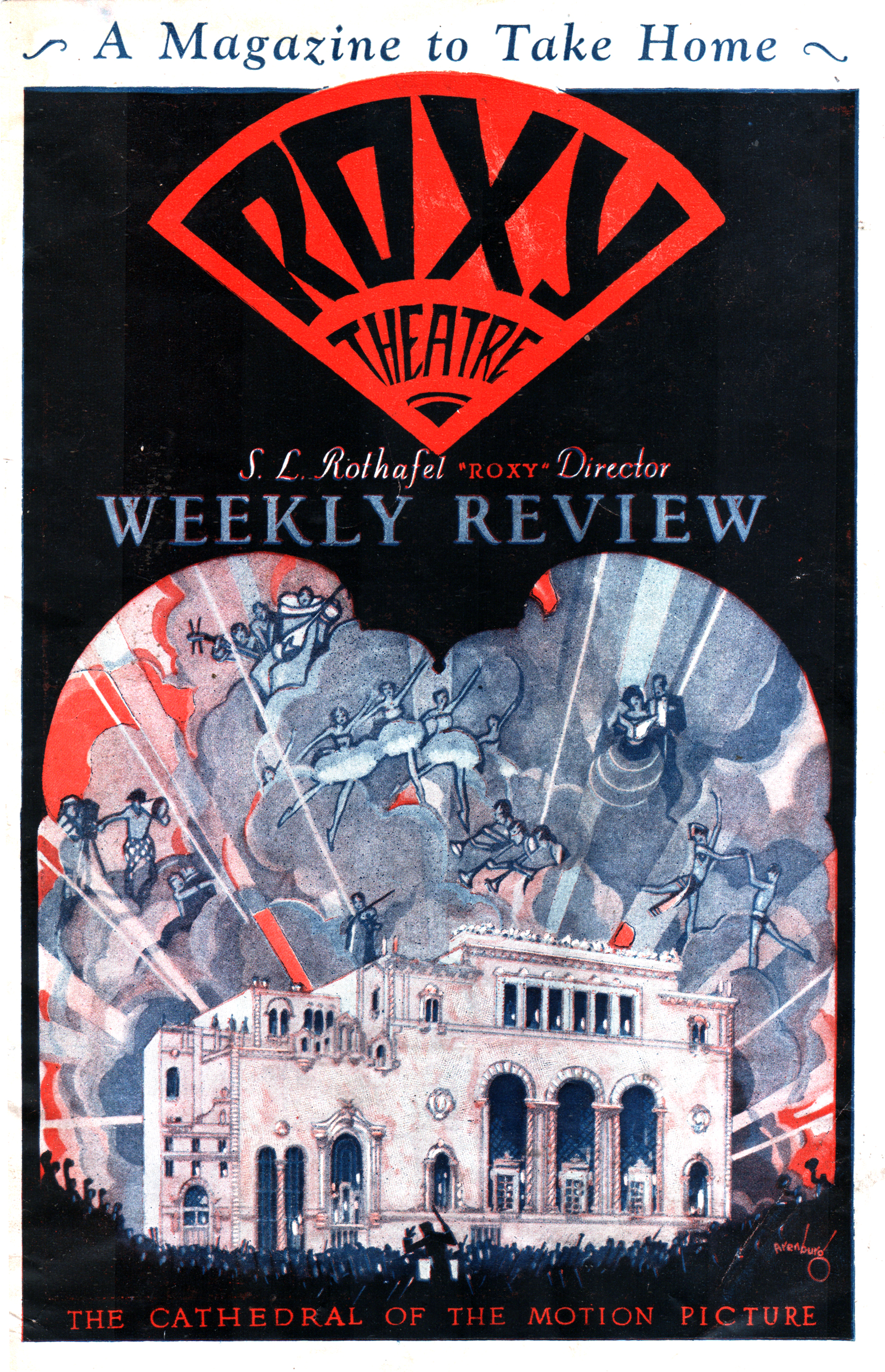 Cover to the Roxy Theater Weekly Review for the week of March 10, 1928 celebrating the first anniversary of the theater's opening on March 11, 1927. The theater was located at 50th Street at 7th Avenue, New York, NY